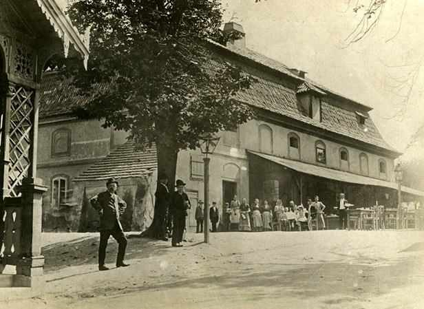 Pub Kravin in Prague, 1980, headquarter of Jaroslav Hasek satirical Party for moderate progress in the limits of the laws